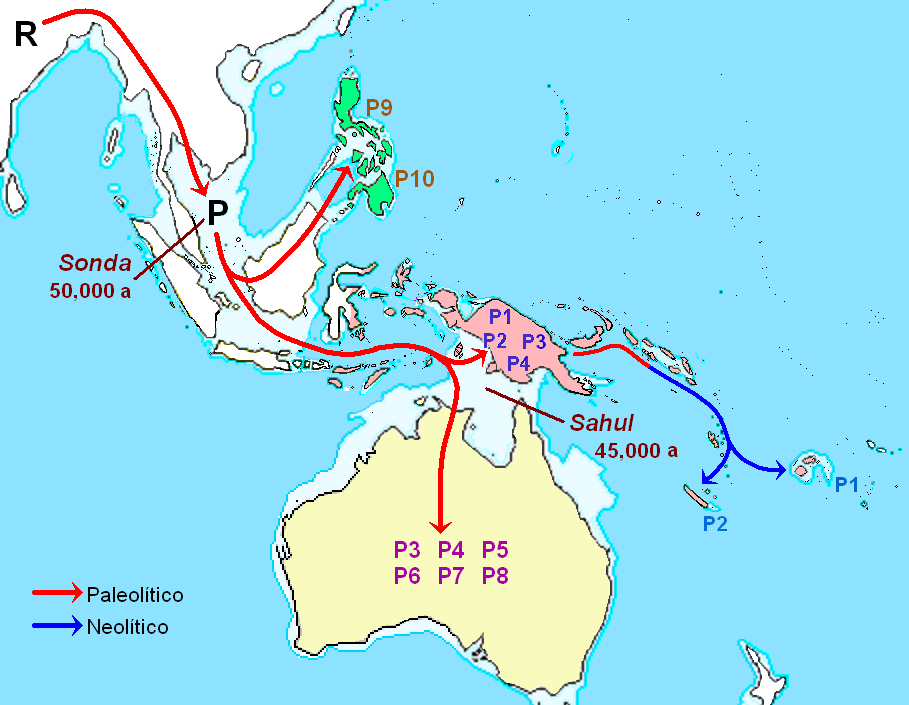 Early human colonization of Sahul, according to genetic evidence of haplogroup P's dispersal (mtDNA).